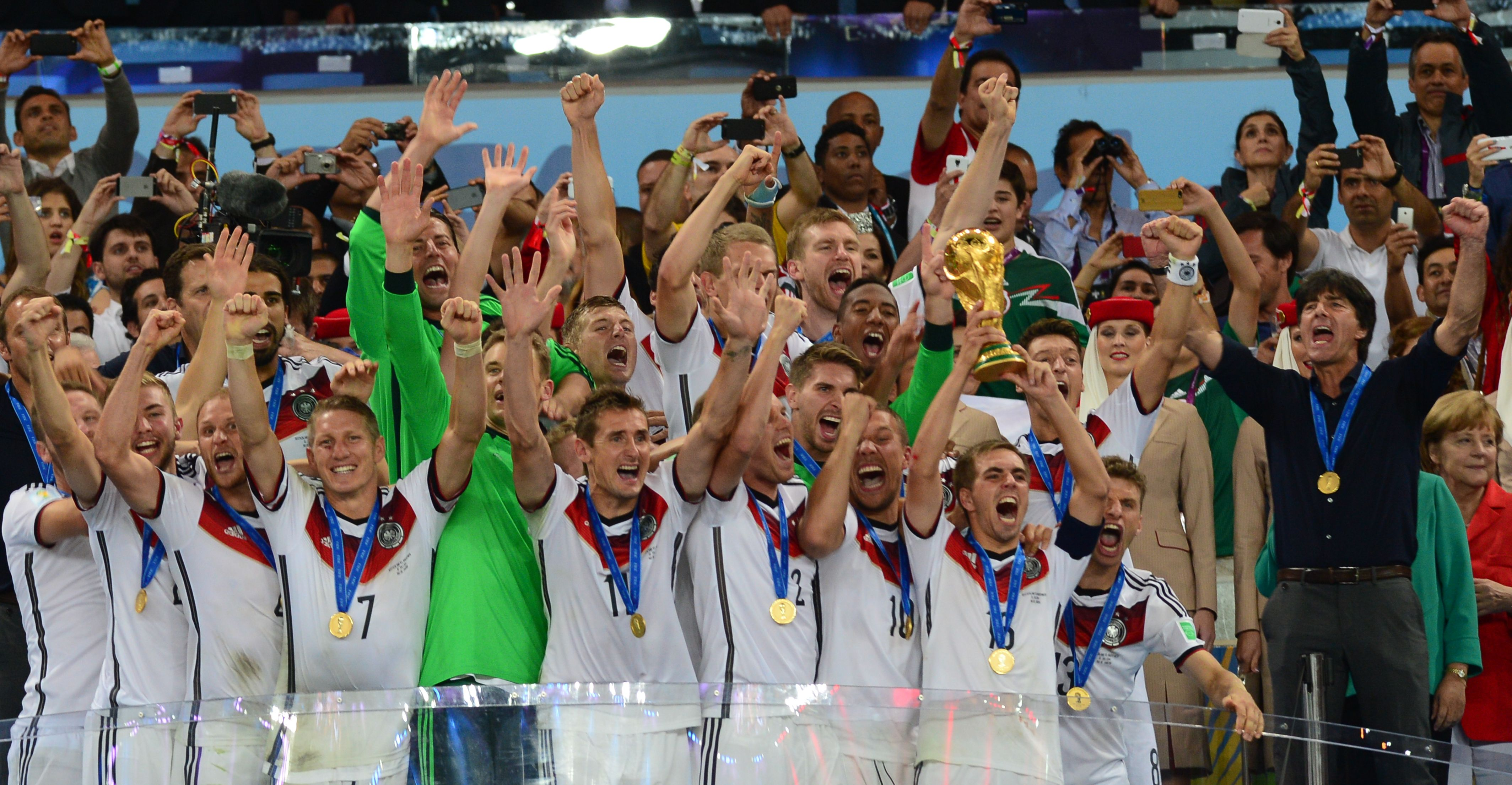 Award ceremony of the World Cup in Brazil